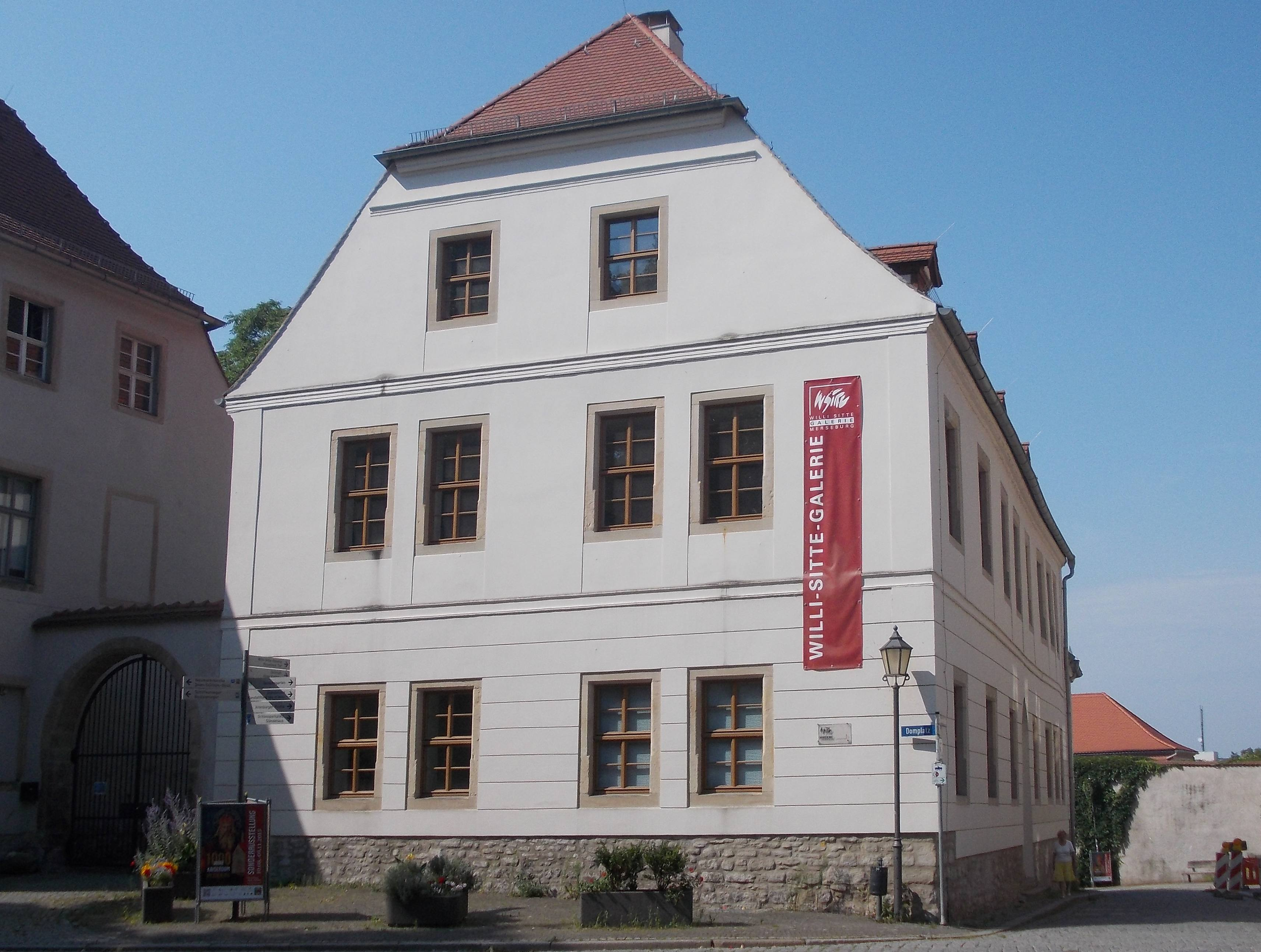 No. 15, Domstrasse in Merseburg (district: Saalekreis, Saxony-Anhalt), Willi Sitte Gallery